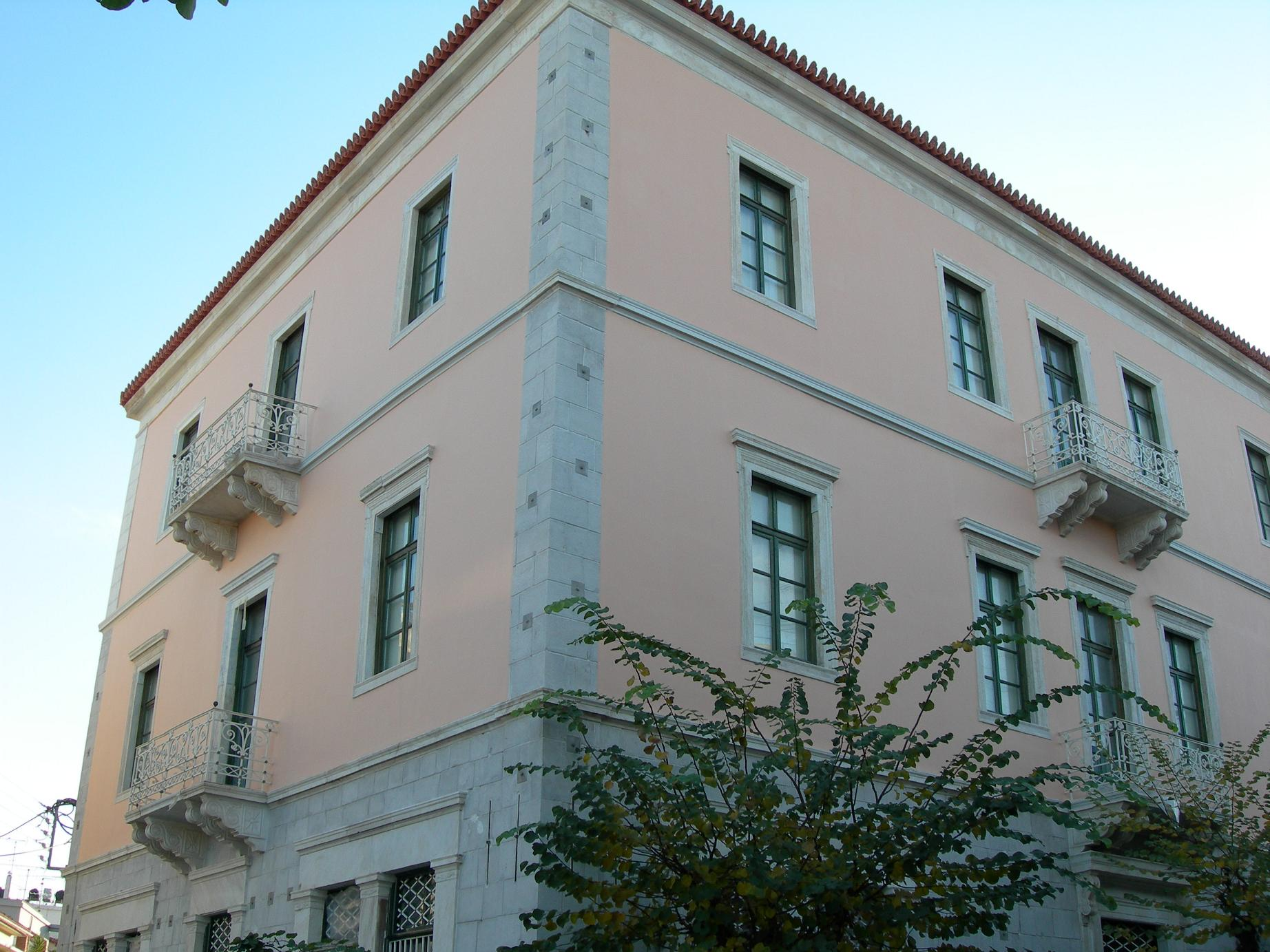 View of Panagiotopoulos Megaron in Aigio. Designed by Panagiotis Kalkos (1810-1878)